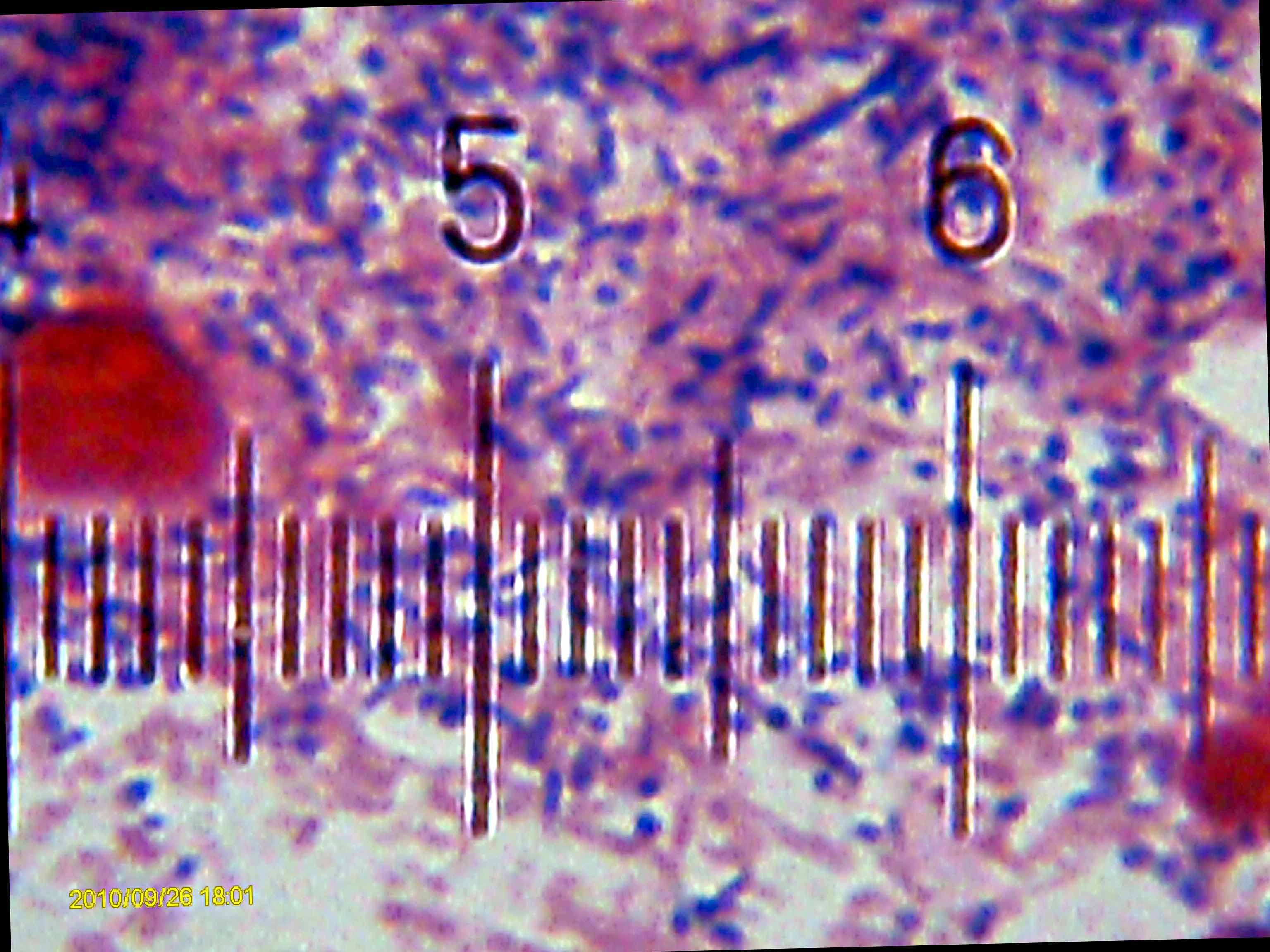 Microscopic view of dental plaque, showing Gram-positive and Gram-negative bacteria. 100× objective, 15× eyepiece. Numbered ticks are 11 µM apart. Gram-stained. Each pixel on the full-sized version of this image represents a 0.009475-µM square.